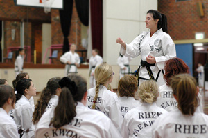 Rhee Tae Kwon-Do ladies' training session in May 2007.